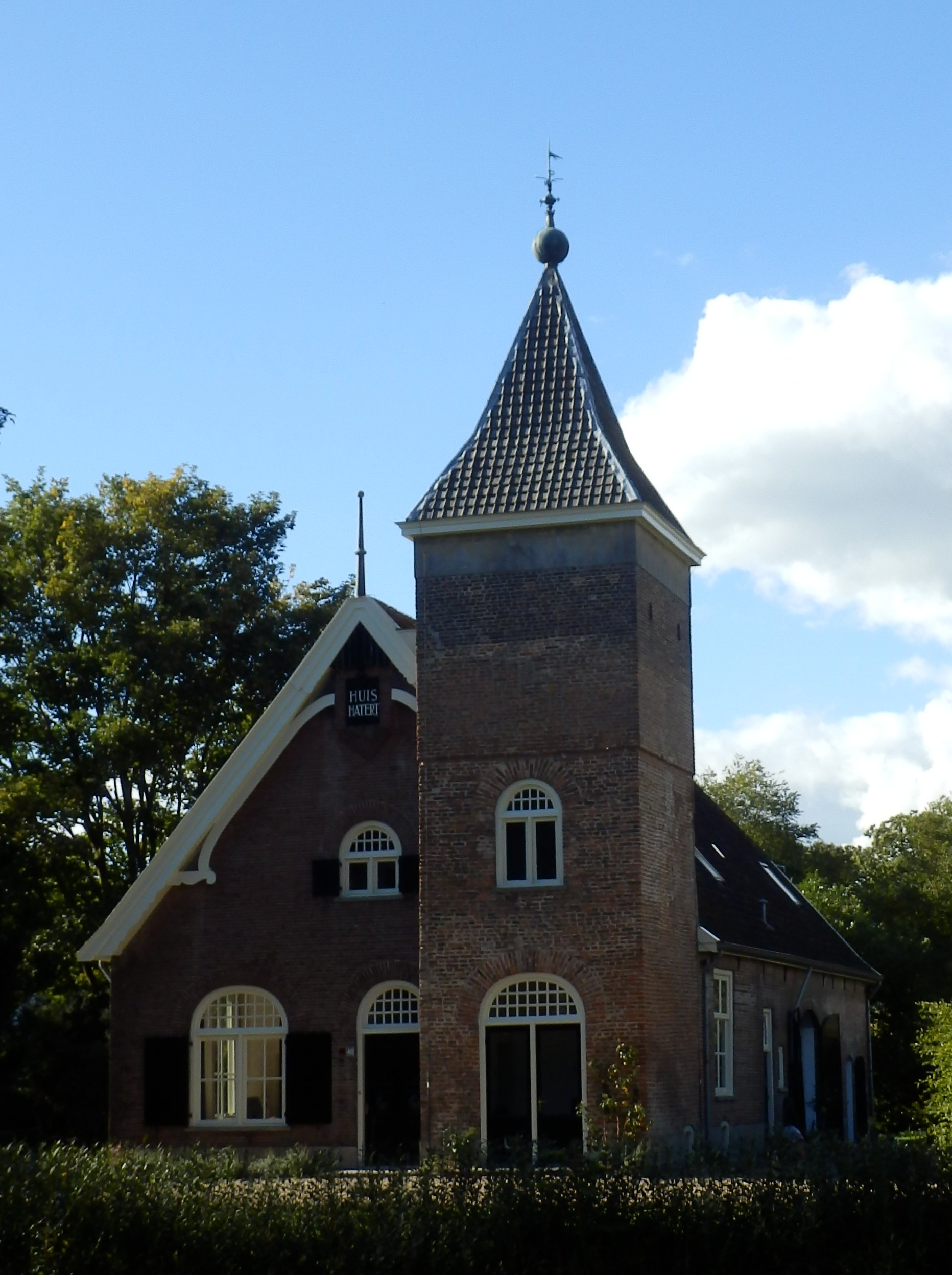 Huis Hatert in Nijmegen